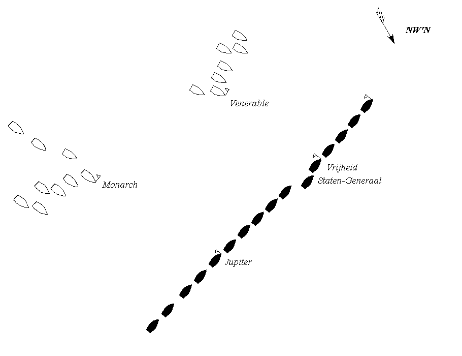 Battle of Camperdown. Phase 1